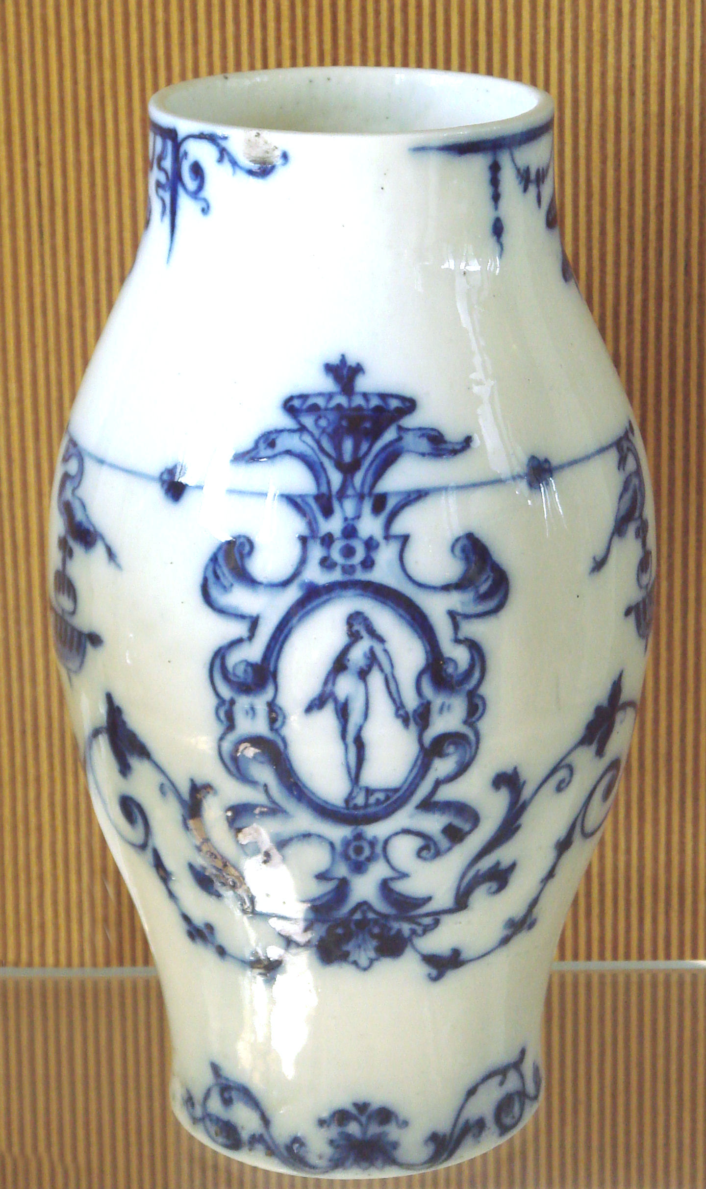 Rouen porcelain vase end of the 17th century